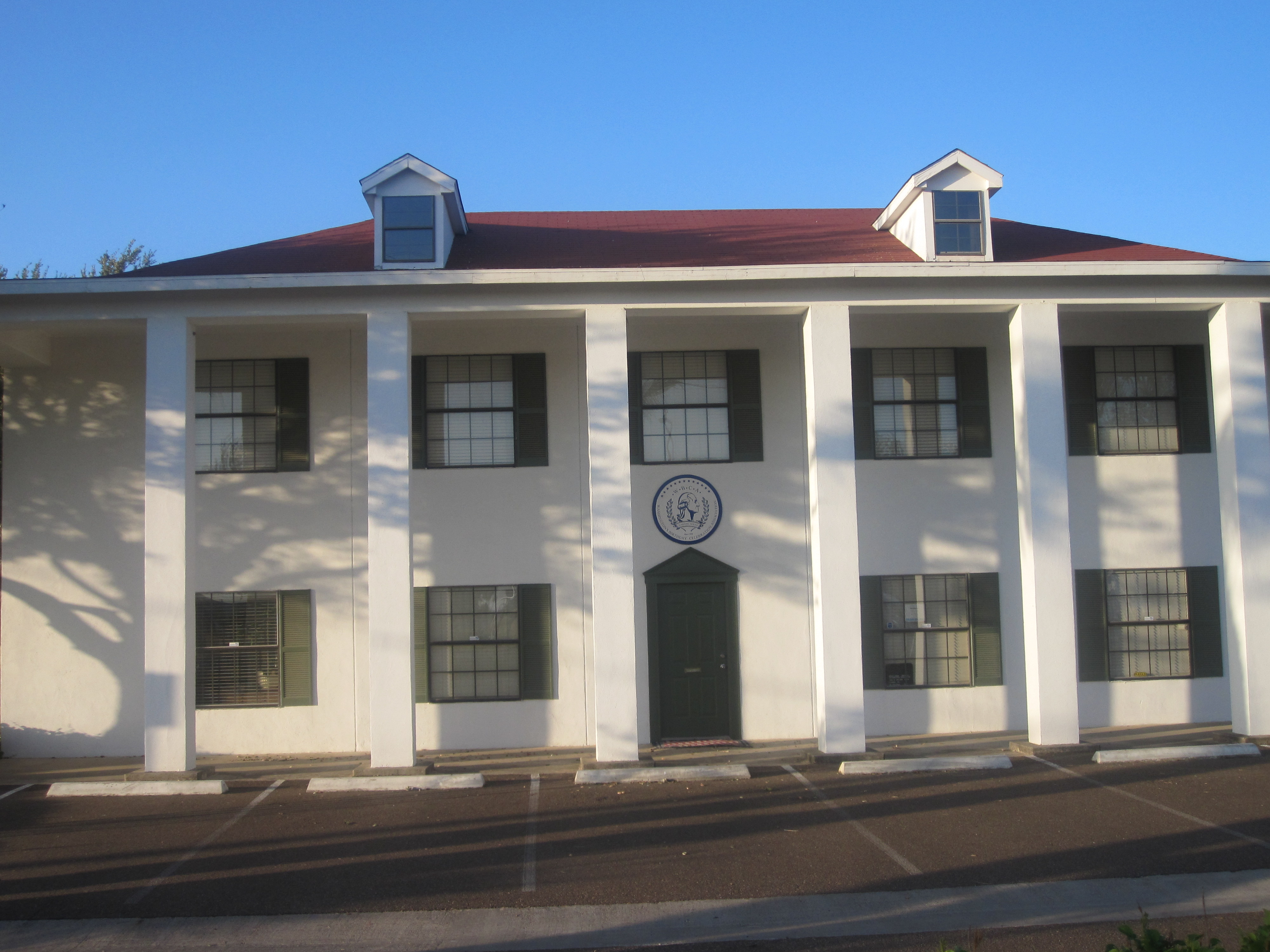 Washington's Birthday Celebration Association Building, 1819 East Hillside Road, Laredo, Texas. I took photo on July 15, 2009, with Canon SD 780.